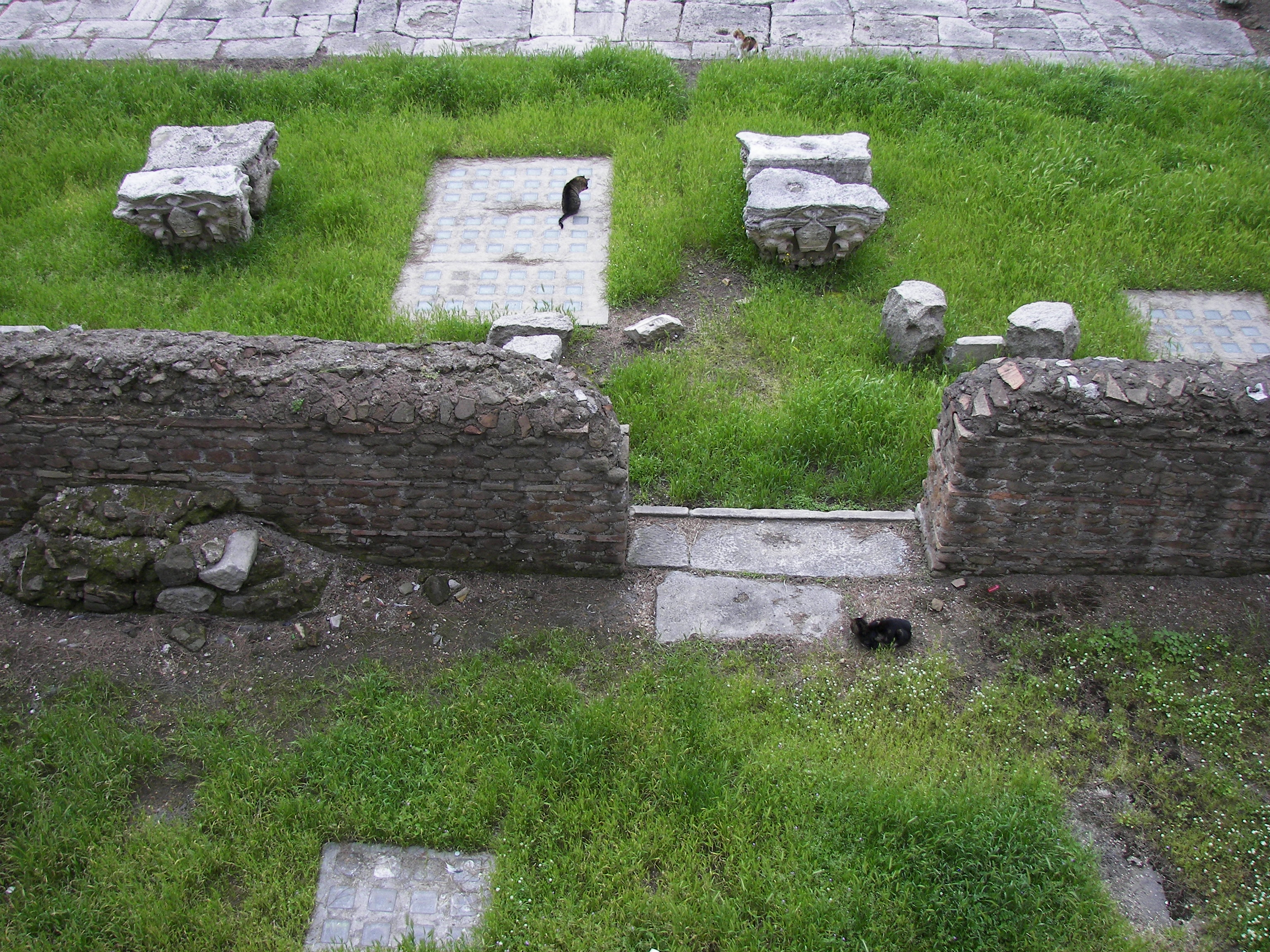 Cats in the sacred area of Largo di Torre Argentina in Rome.